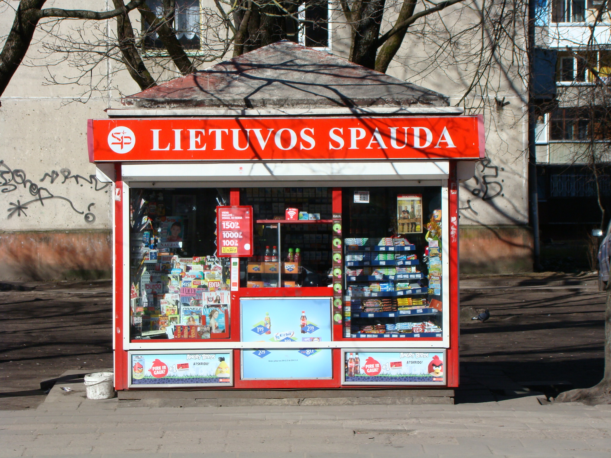 A newspaper kiosk on Savanoriu Avenue in Vilnius/